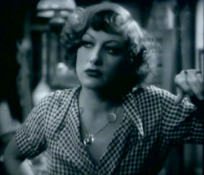 Cropped screenshot of Joan Crawford from the film Rain.